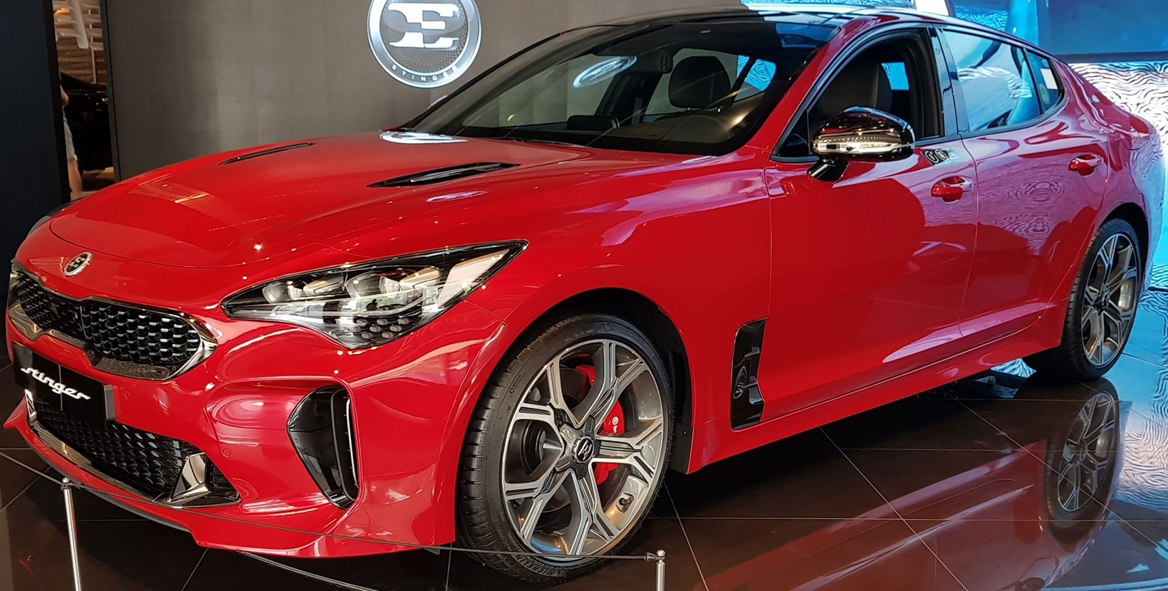 Kia Stinger